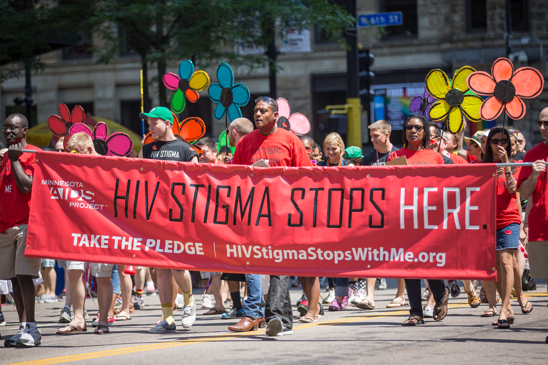 2013 Twin Cities Pride Parade, Minneapolis.